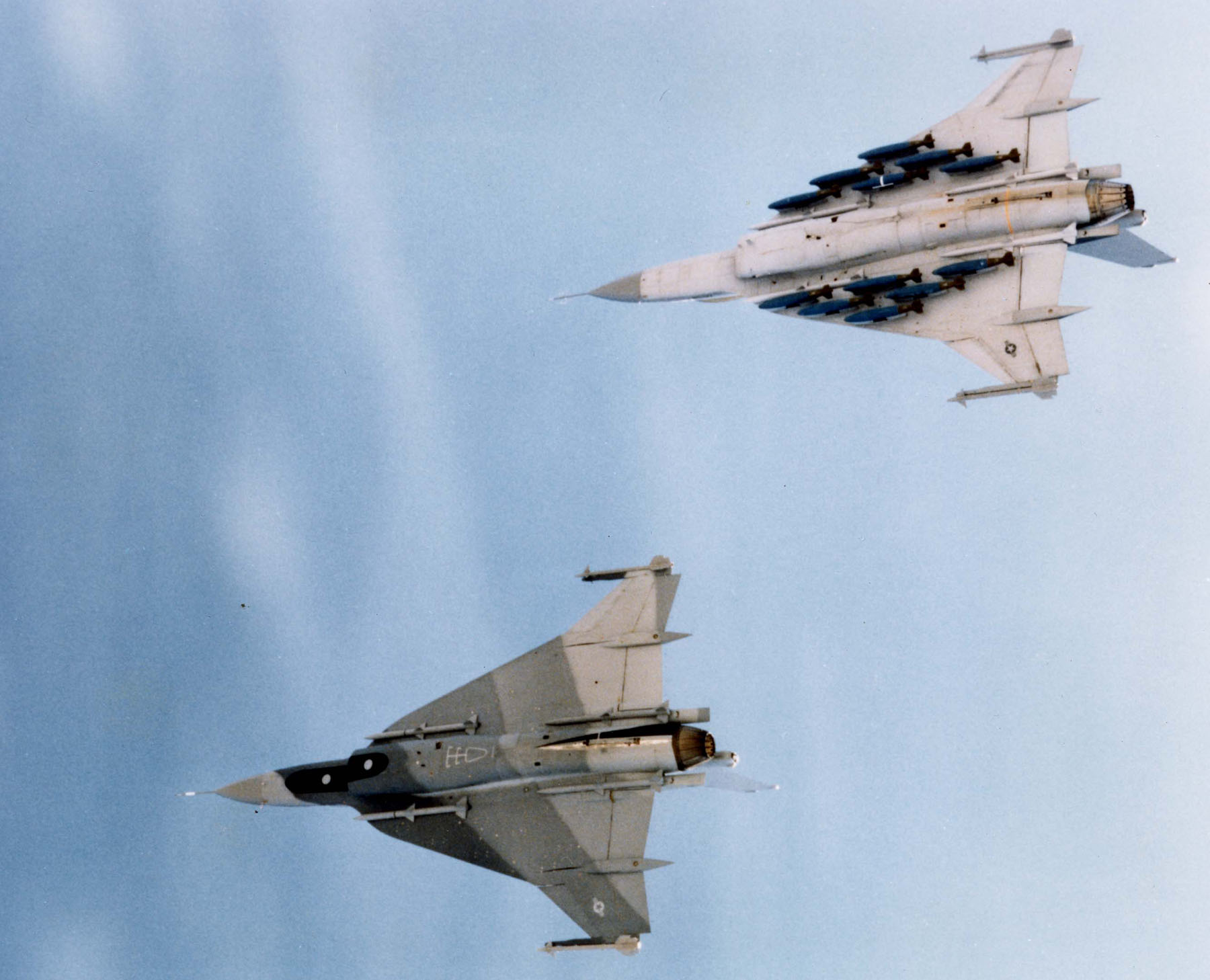 A pair of F-16XLs